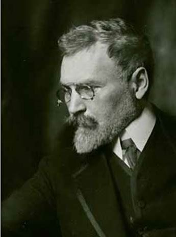 Painter Leopold Schmutzler (cropped)